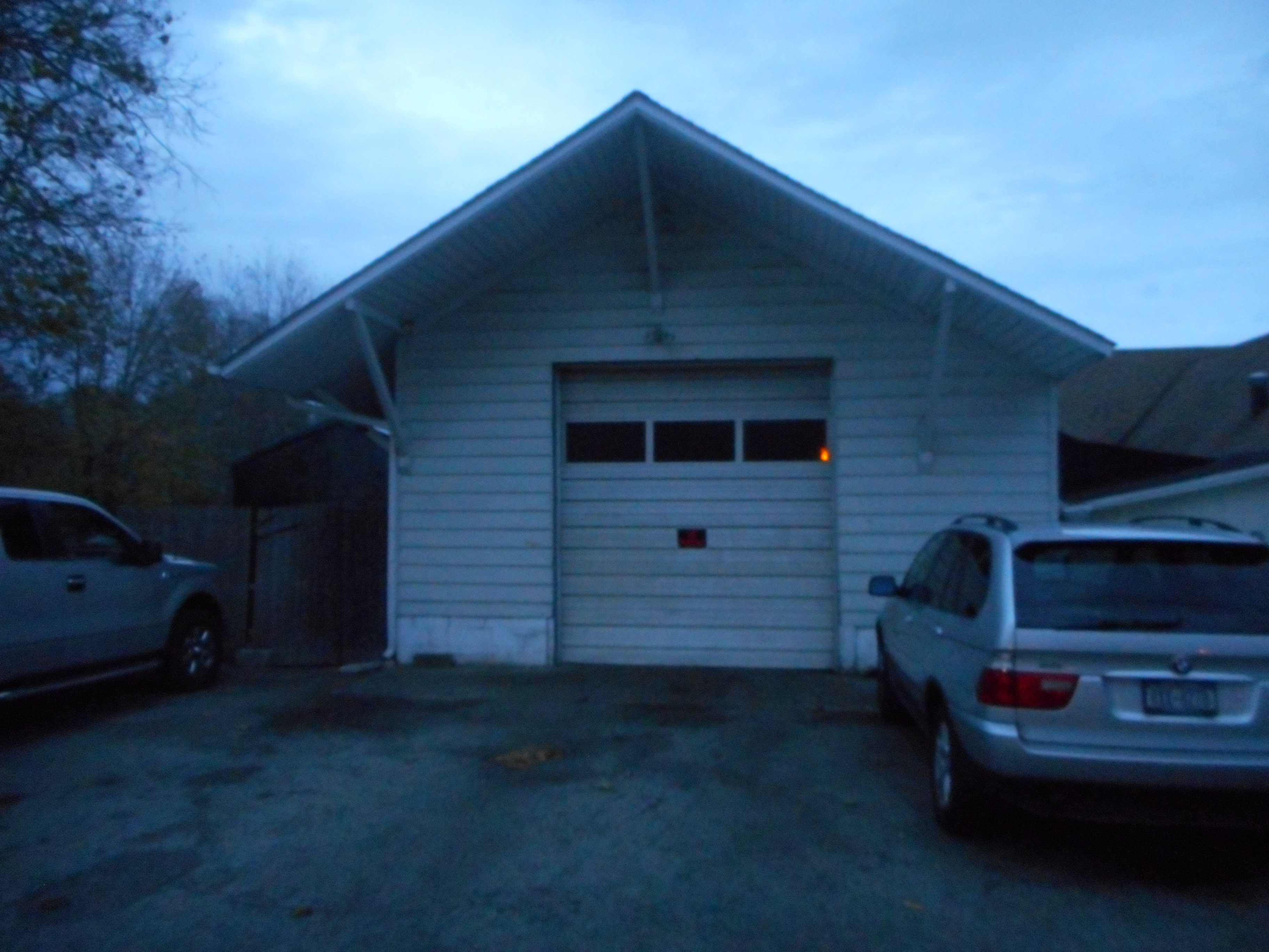 Dusk shot of a Getty gas station on the northeast corner of Main Street (Suffolk County Road 80), and Tuttle Avenue in Eastport, New York, that also includes the former Eastport Long Island Rail Road station house behind it. This building, which is now a garage at the gas station appears to be the former railroad station itself.